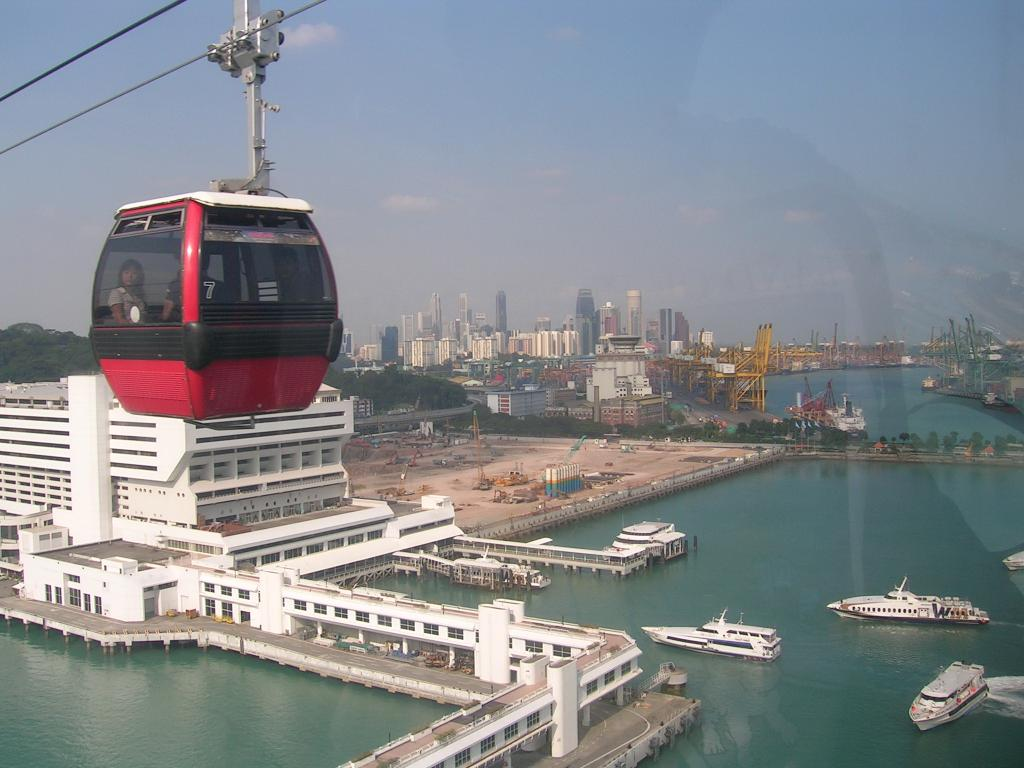 A view of HarbourFront, Singapore, and a cable car from Singapore Cable Car.